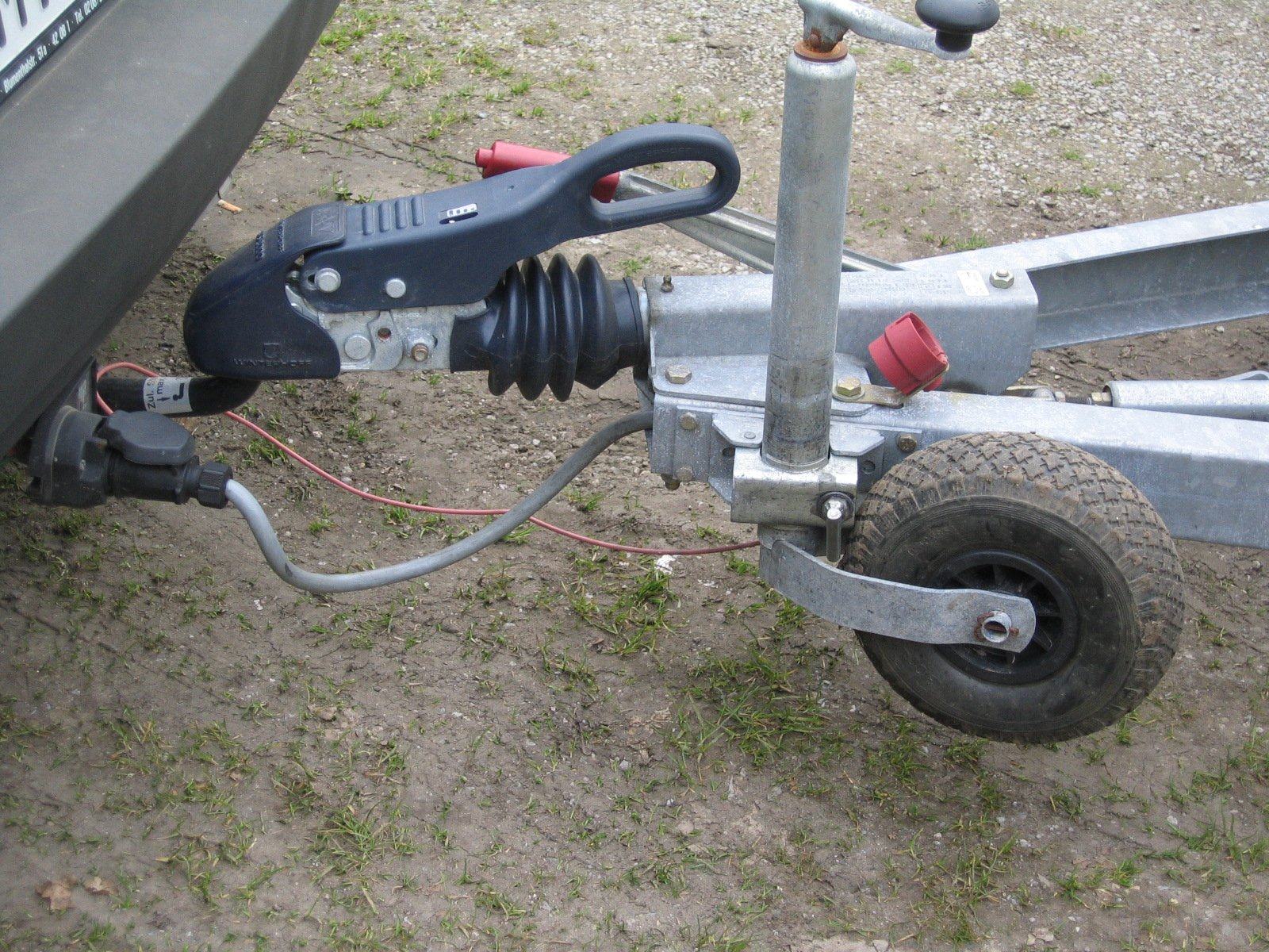 coupling of a caravan to a car